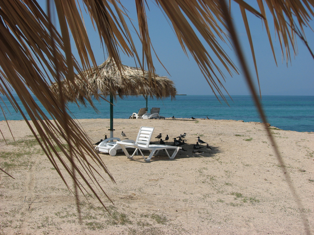 Beach on Moucha Island, Djibouti.